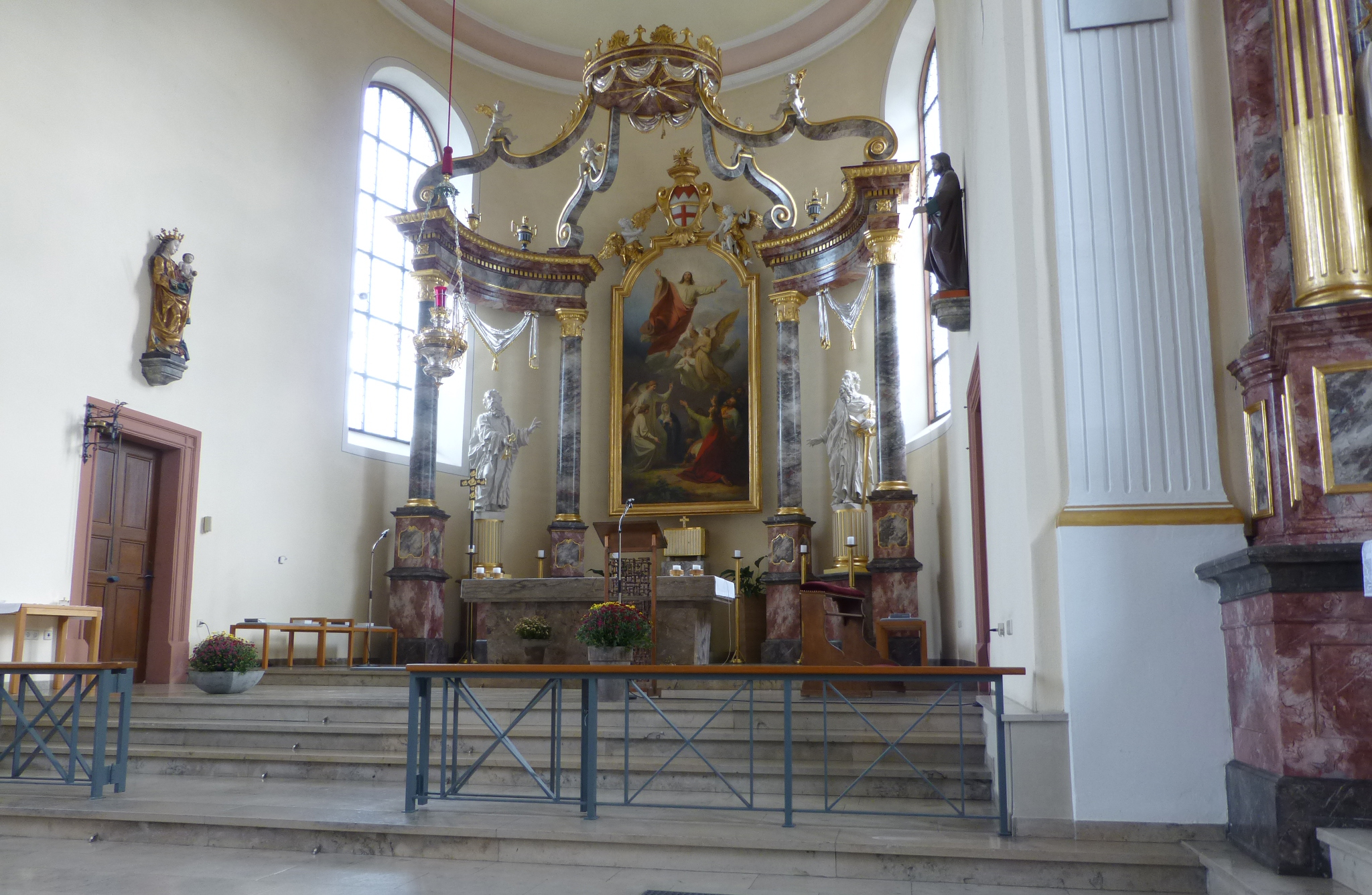 Interior of the Königsheim church, last constructed in 1836, Baden.